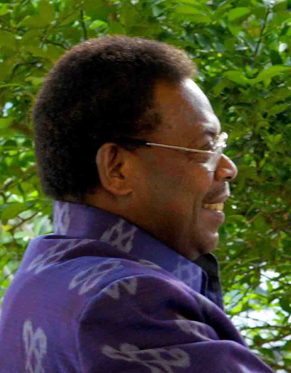 Prime Minister Dr. Derek Sikua, greets Capt. Andrew Cully, Pacific Partnership mission commander, during the closing ceremony of the Pacific Partnership mission in the Solomon Islands. taken in Honiara.